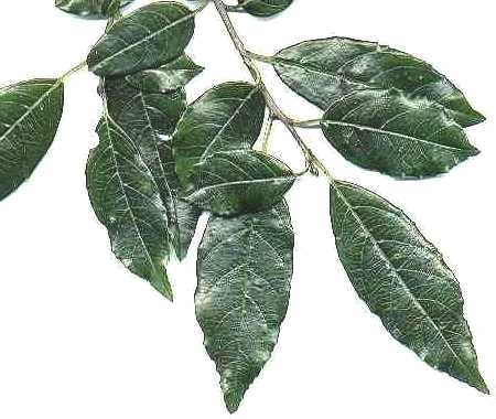 Rhamnus prinoides. I created this image and release it under GFDL licence. JMK 16:14, 21 March 2007 (UTC)